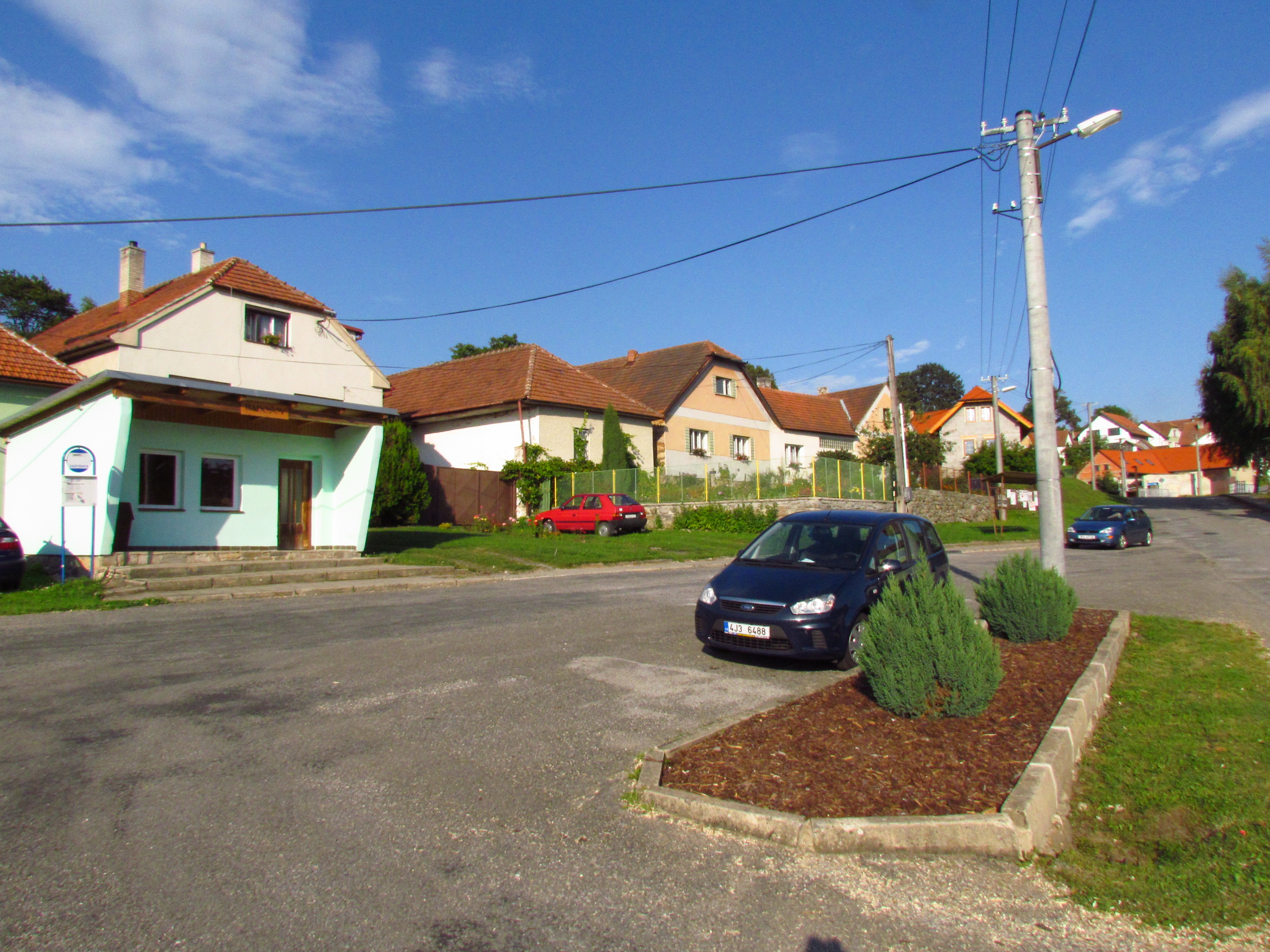 Center of Radošov, Třebíč District.